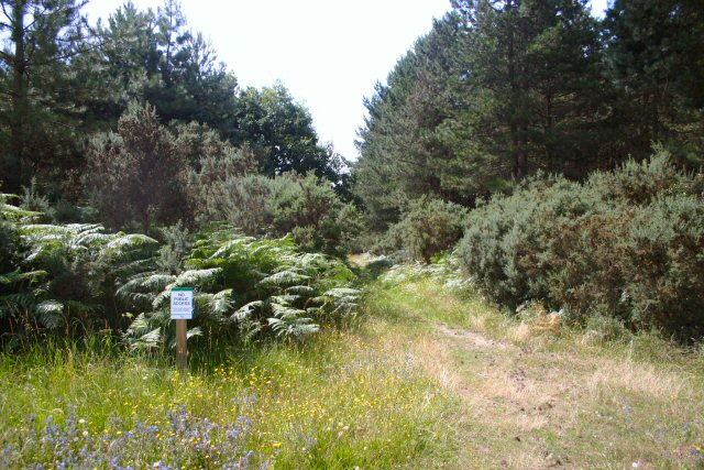 Wangford Warren The sign states, "no public access". But I came up the path and only saw the sign afterwards...too bad.